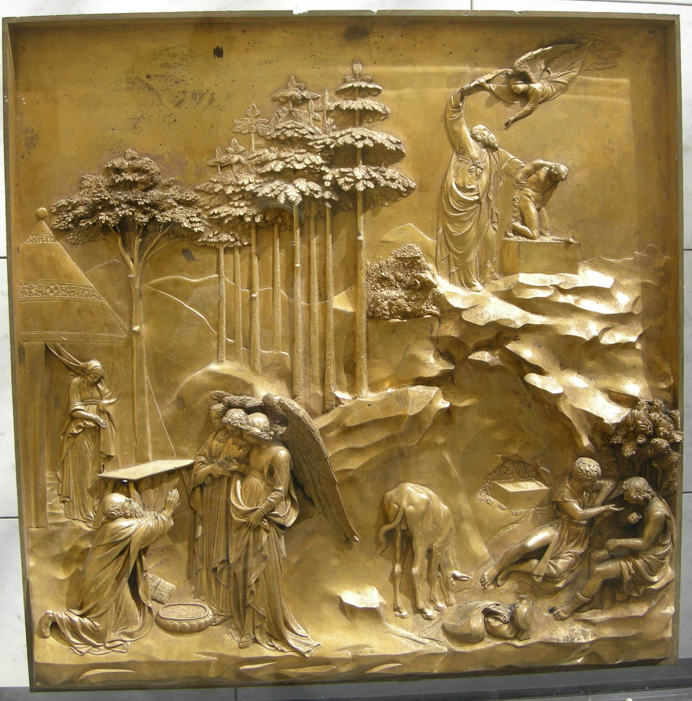 Abraham (Gates of Paradise)